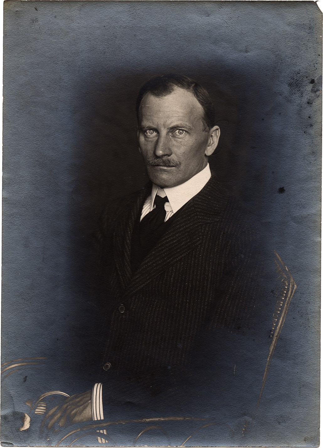 Portrait of Alfred Brüggemann, composer (1873-1944). Photo by unknown, before 1944.